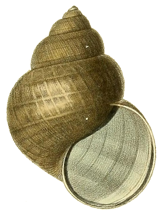 Drawing of an apertural view of the shell of Cipangopaludina cathayensis.